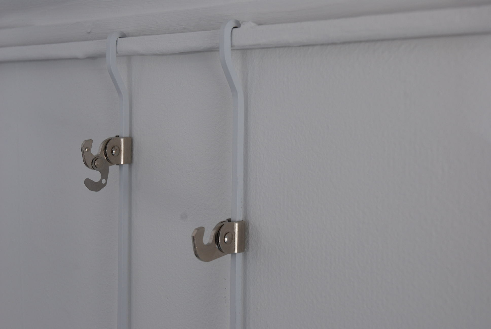 picture rail